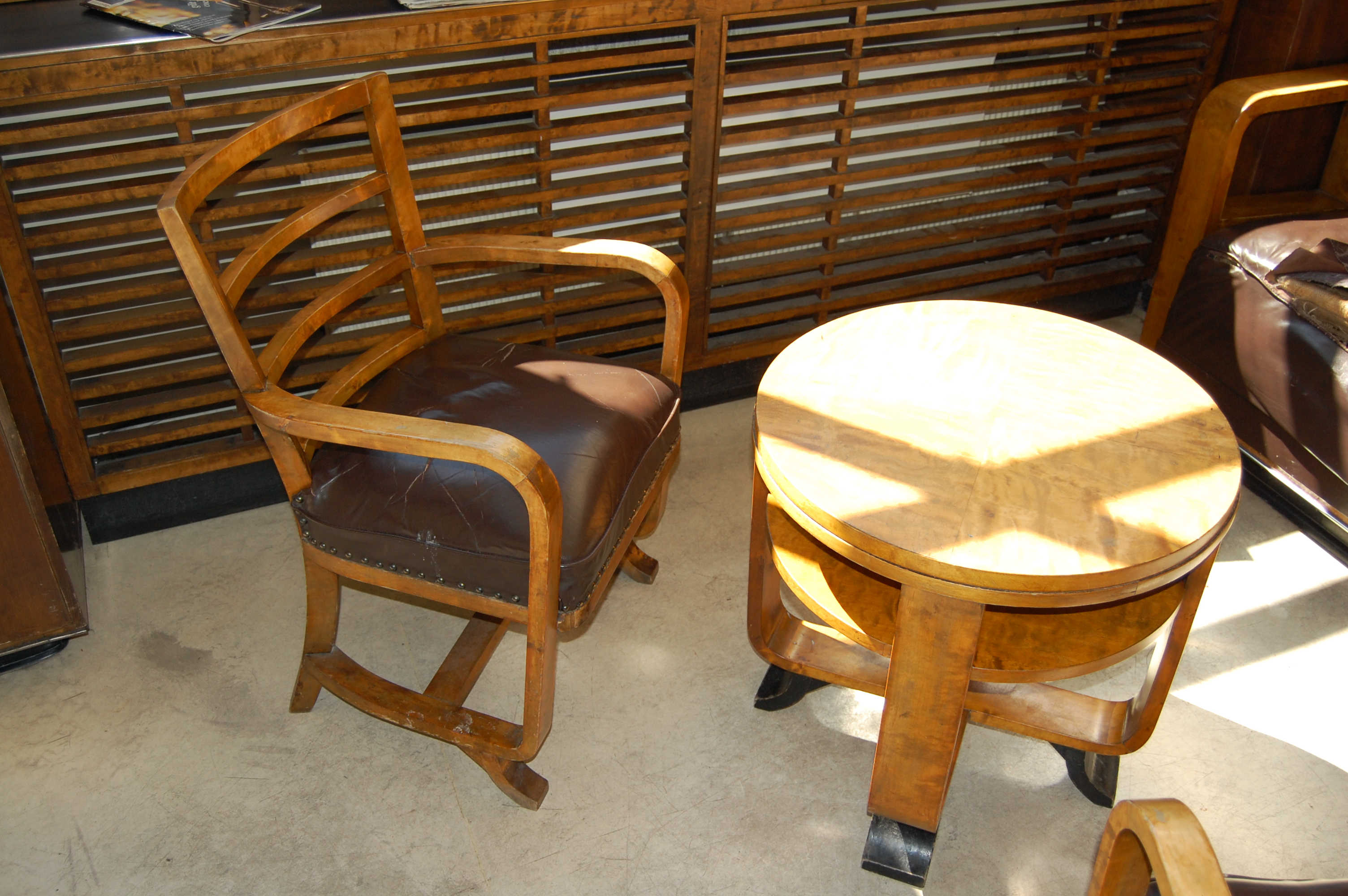 Furniture in Bien bar, Bergen, Norway.